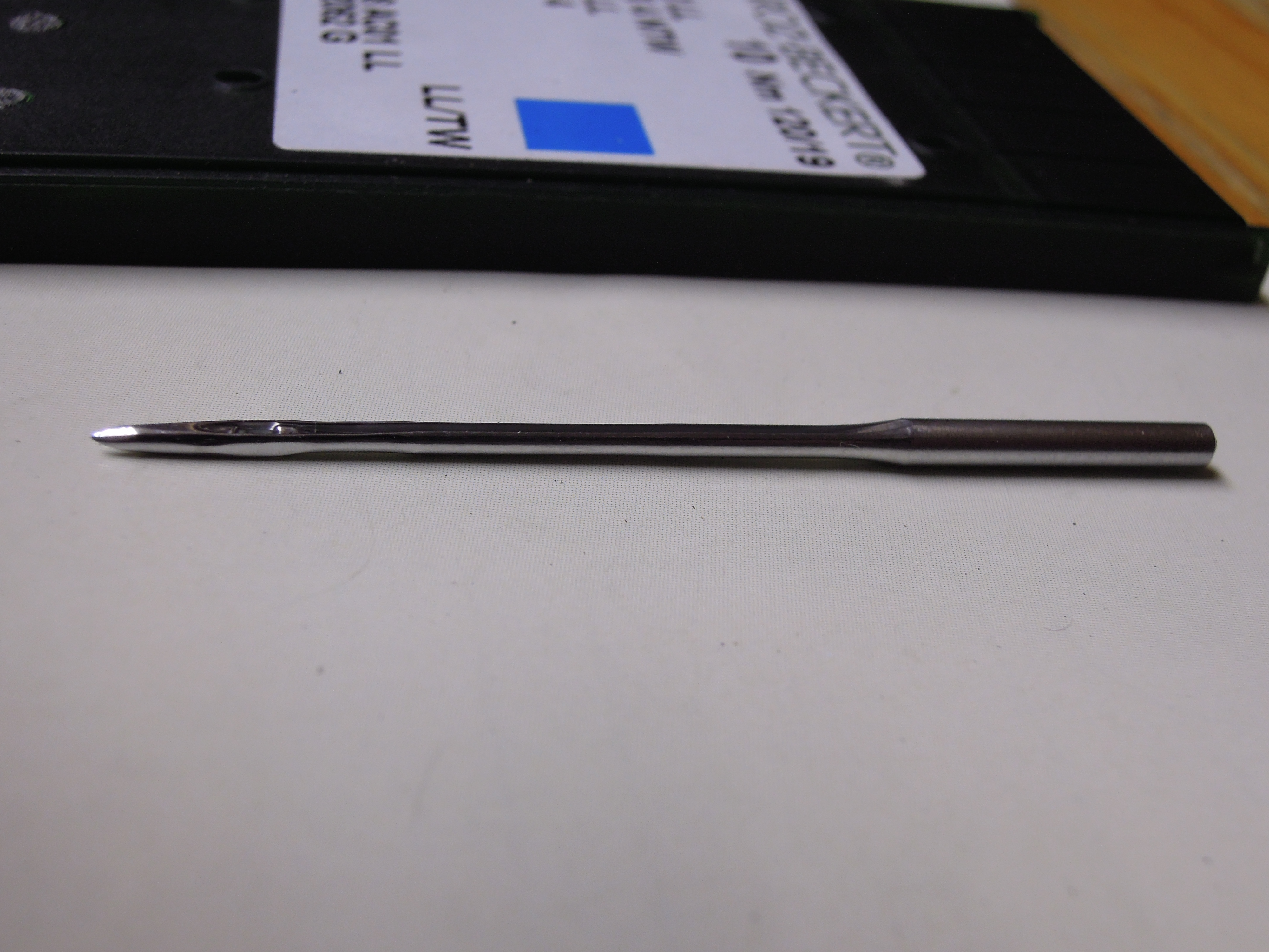 Sewing machine needle.